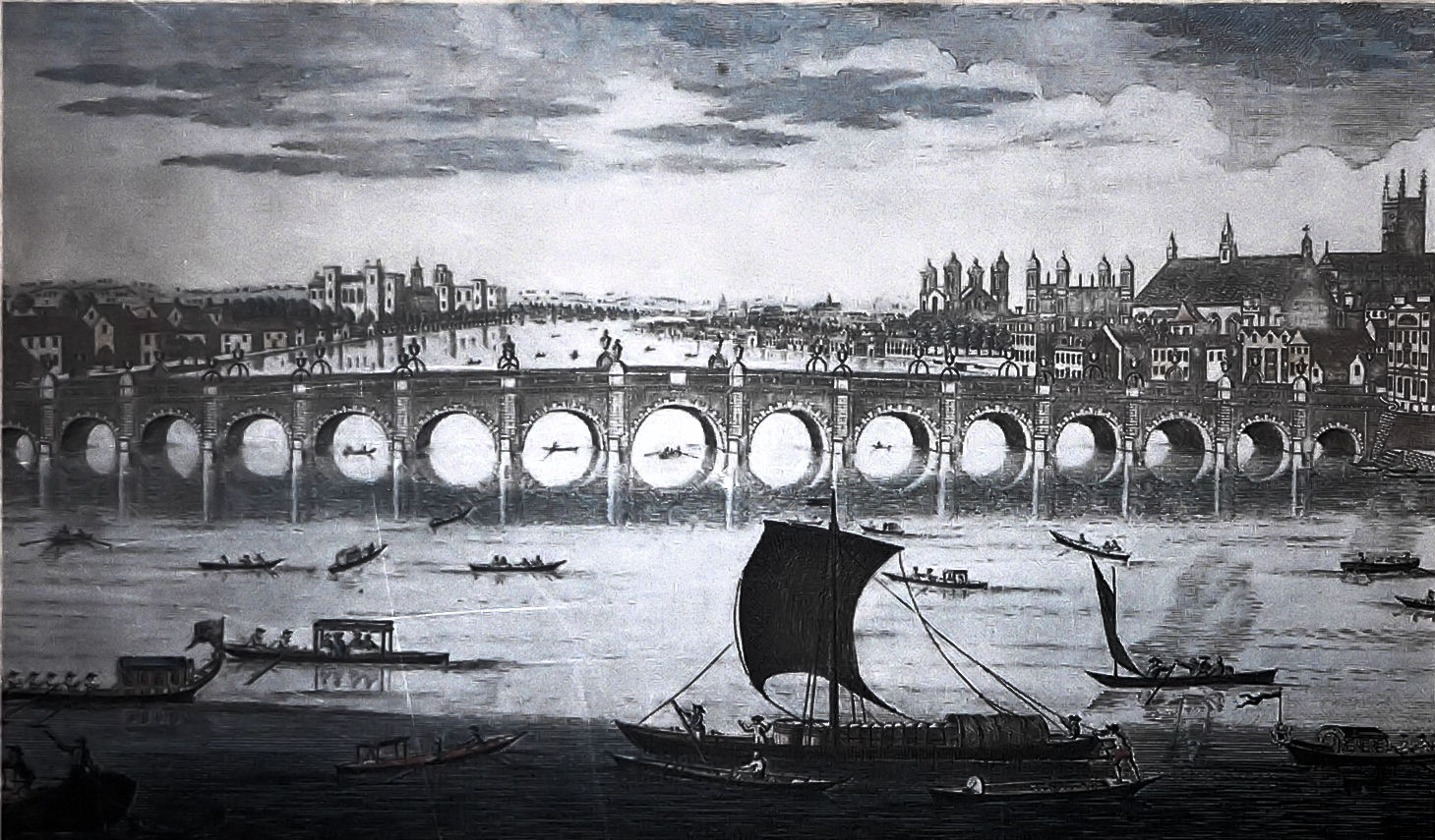 Westminster Bridge, around 1750. The proprietors of the bridge had to pay compensation to the operators of the earlier 'Horseferry', and to local watermen.